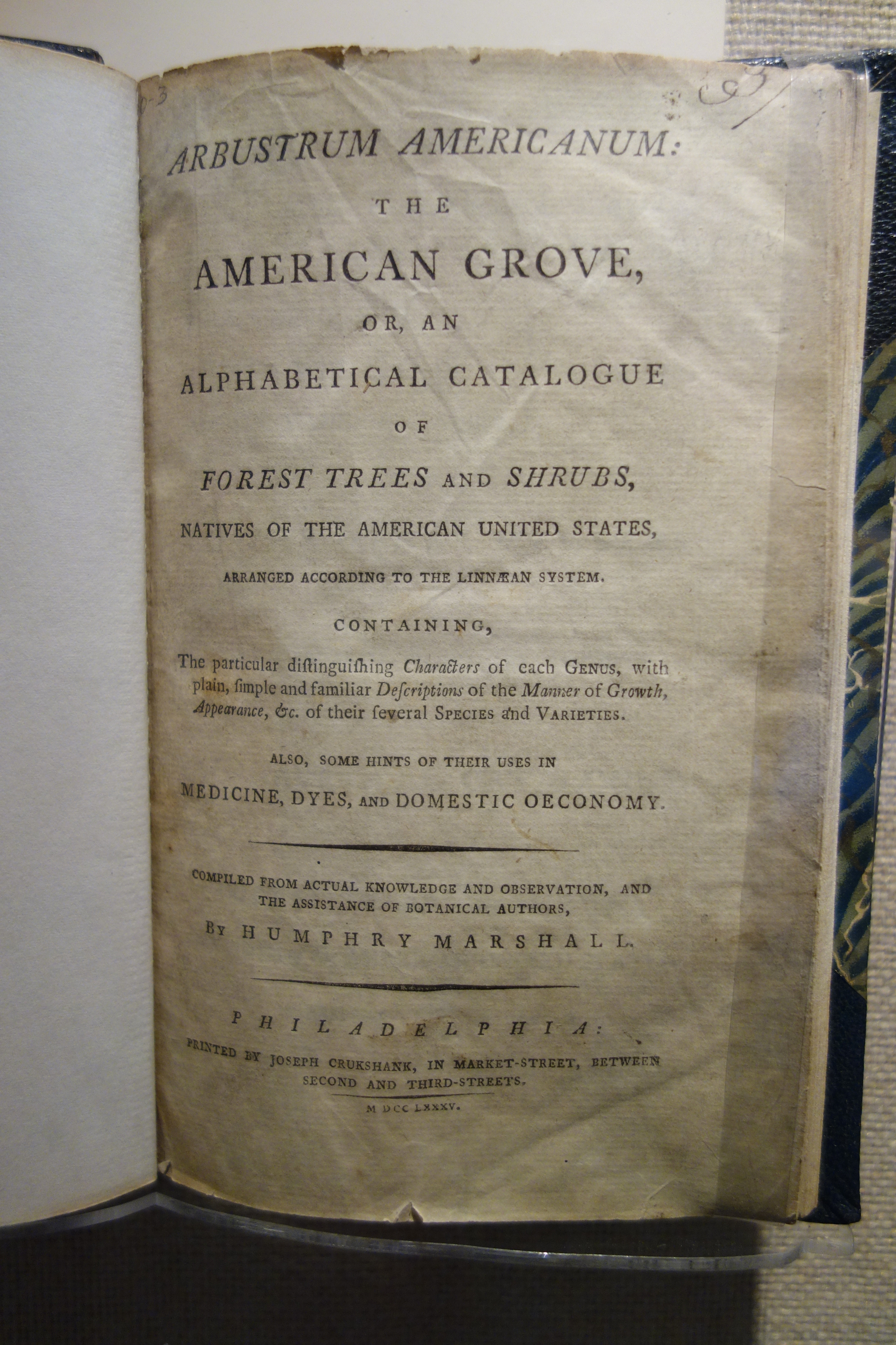 Arbustrum Americanum - The American Grove, by Humphry Marshall, 1785 - Heritage Exhibit - Longwood Gardens, 1001 Longwood Rd, Kennett Square, Pennsylvania, USA.